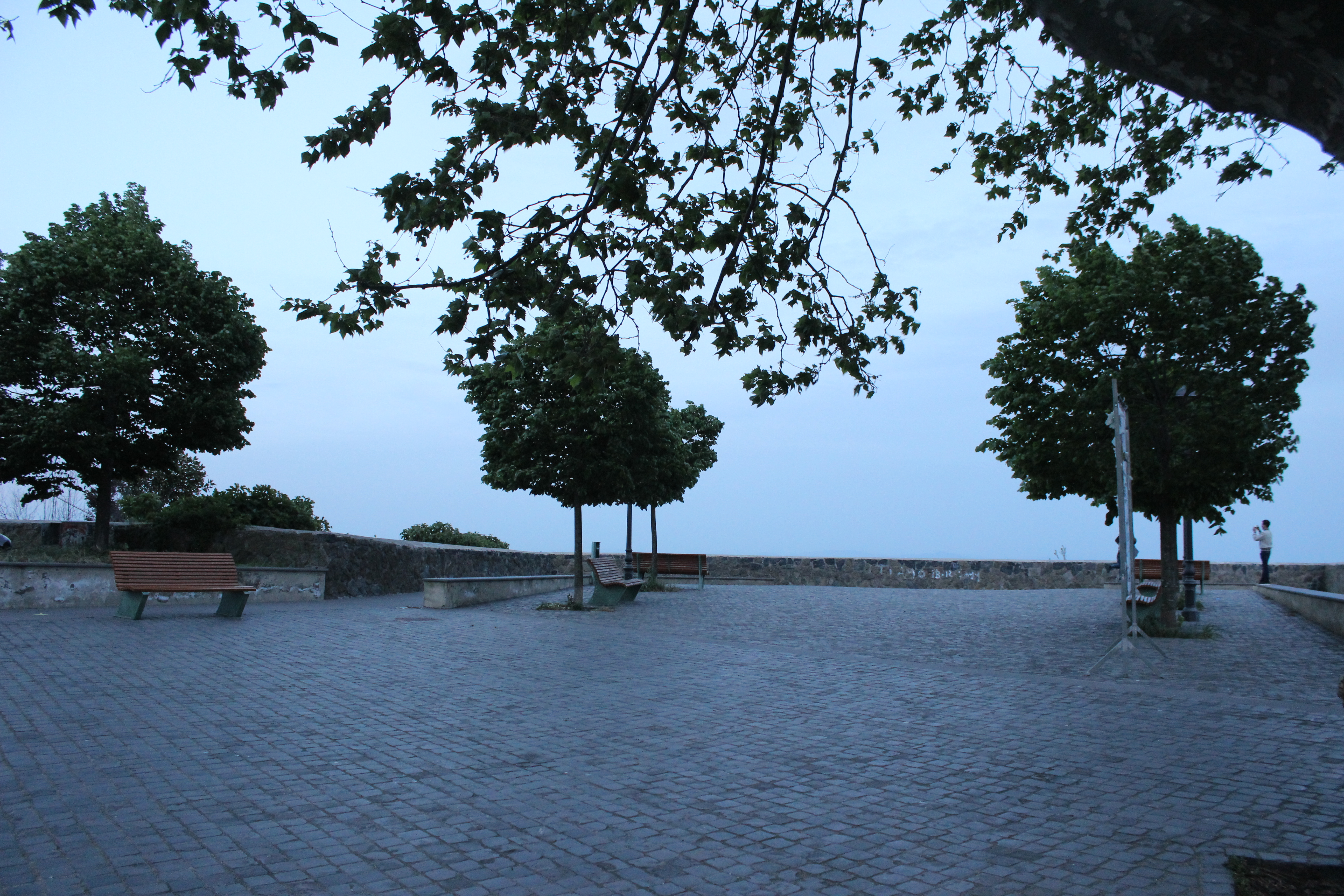 View of Sentinella